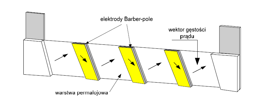 Schemat czujnika AMR Barber-pole